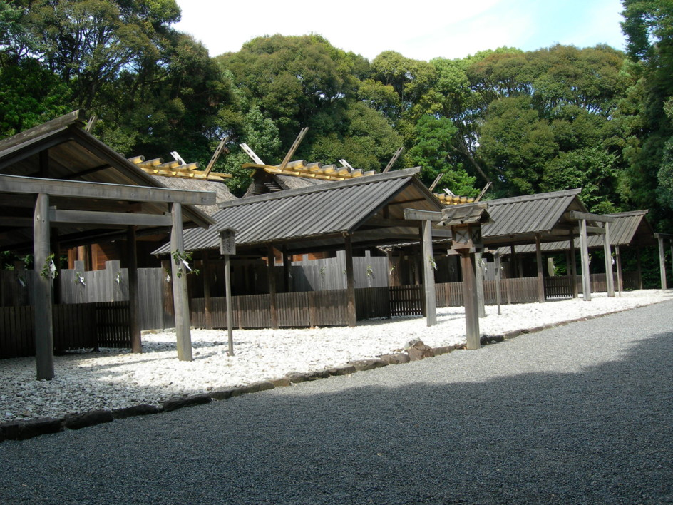 The Betsugu Tsukiyomi-no-miya Sanctuary of Kotaijingu(Naiku) at Ise city, Mie Prf., Japan.